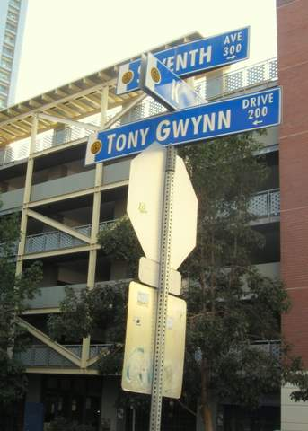 Tony Gwynn Drive named after Tony Gwynn outside of Petco Park in San Diego